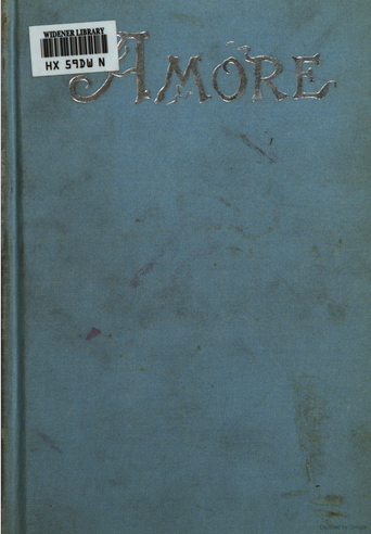 "Amore", by Elizabeth Boynton Harbert